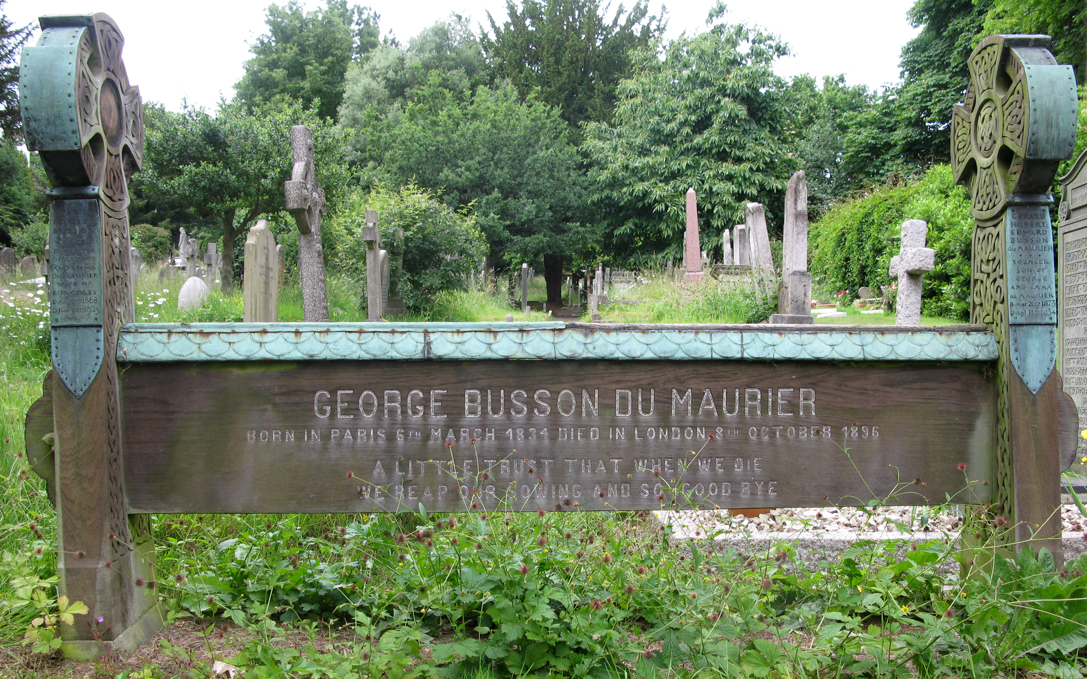 George Du Maurier family grave, Hampstead Parish Church, London, England.